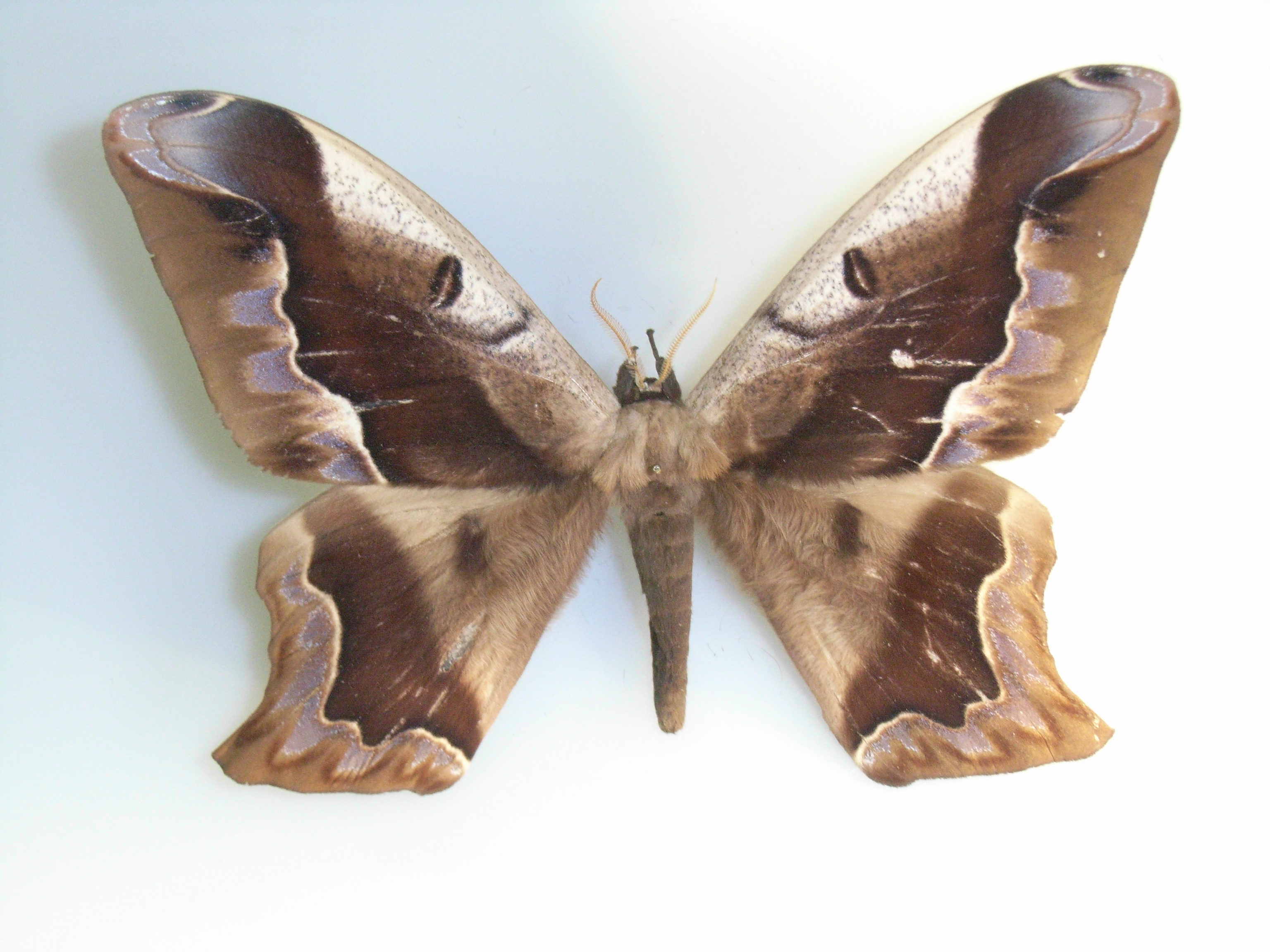 Arsenura sylla (Cramer, 1779)Ex coll. Felix Stumpe